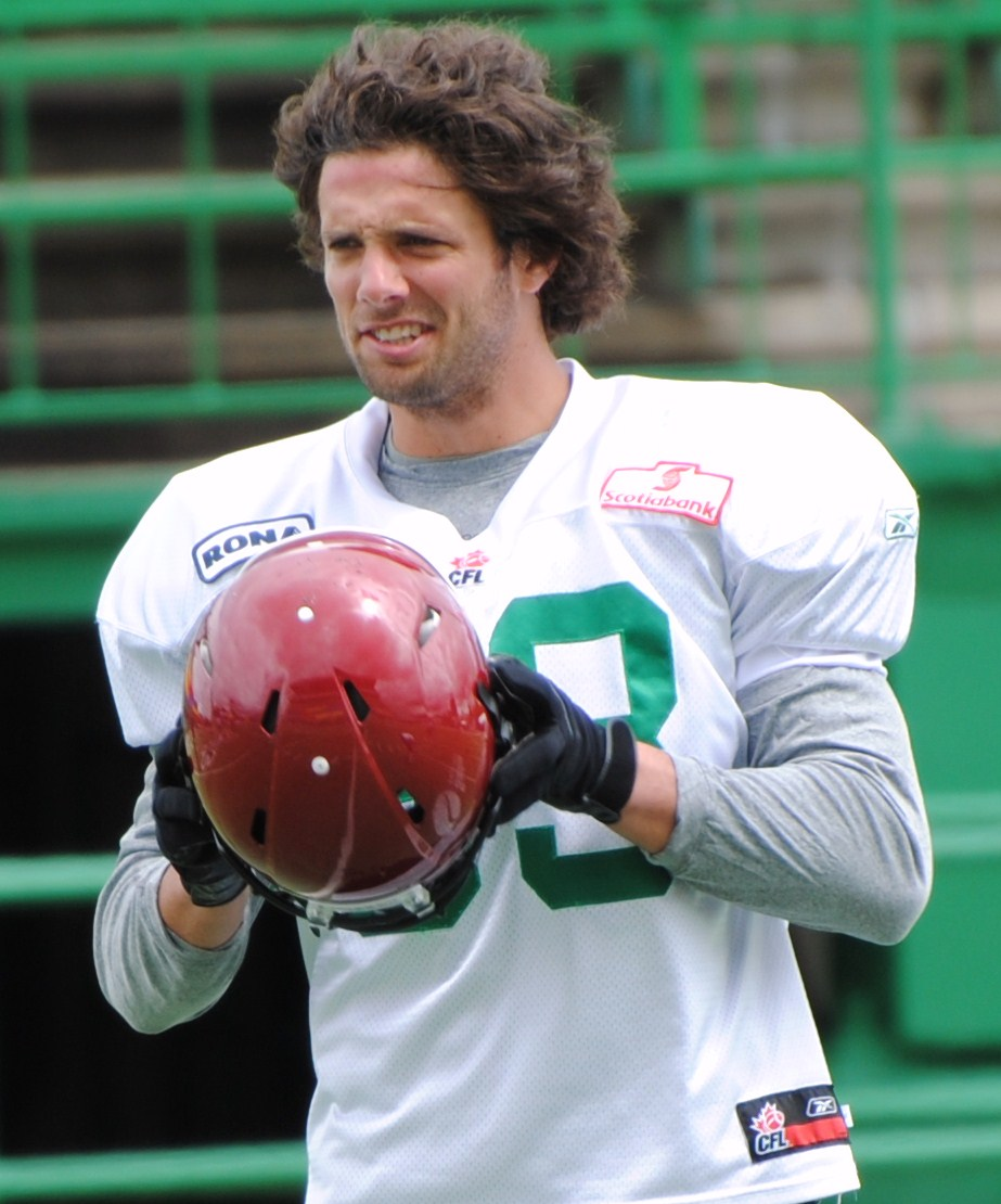 Andy Fantuz during a Saskatchewan Roughriders practice.